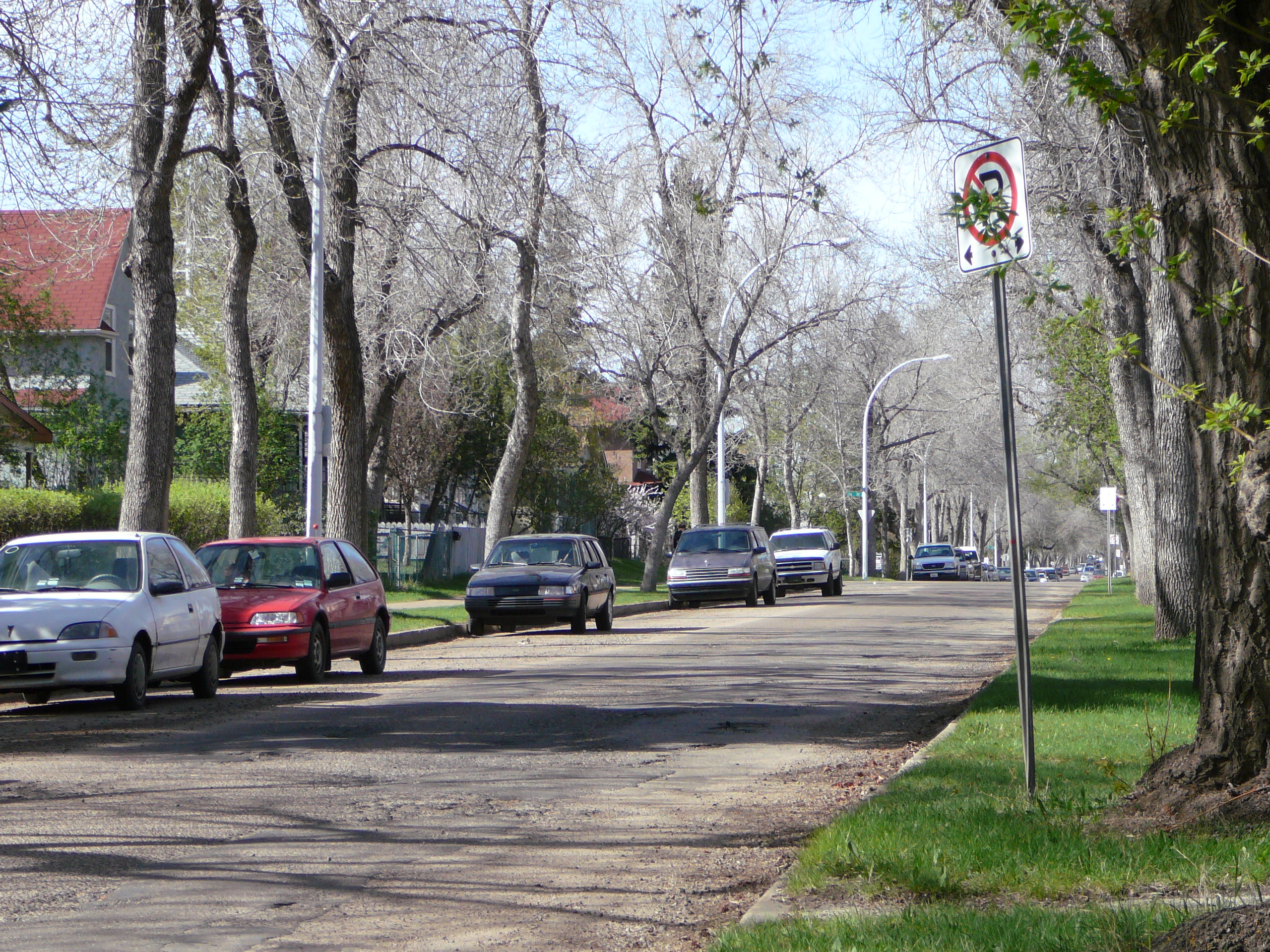 Picture of residential side street in Alberta Avenue (94 Street north of 114 Avenue).